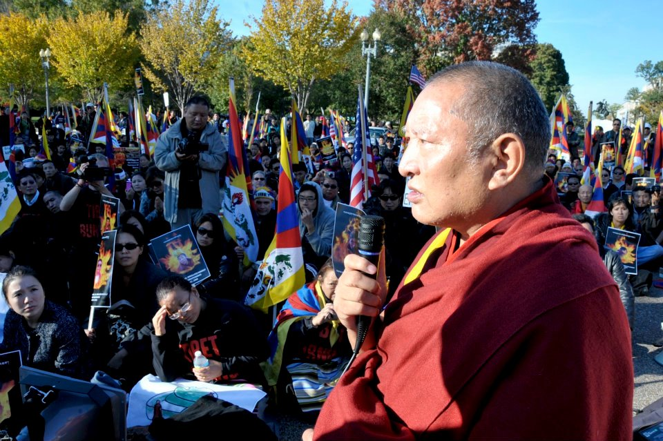 Kirti Rinpoche speaks to hundreds of Tibetans and supporters in front of the White House. Photo by Sonam Zoksang